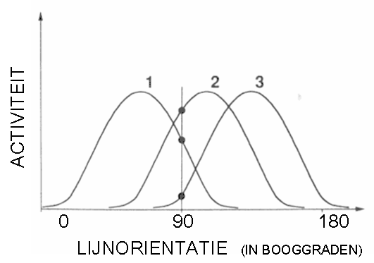 Example of vector coding. Horizontal: line orientation, Vertical: activity (firing frequency) of three imaginary nerve cells. Each cell fires by multiple orientations of a line segment. Three cells are needed to observe a vertical line. Cell 2 shows the greatest activity, cell 1 less and cell 3 the least.